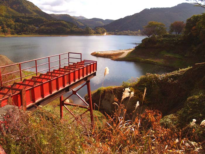 A part of Lake Kinshu from near the JR Hottoyuda Station in Nishiwaga Town, Iwate Prefecture, Japan.